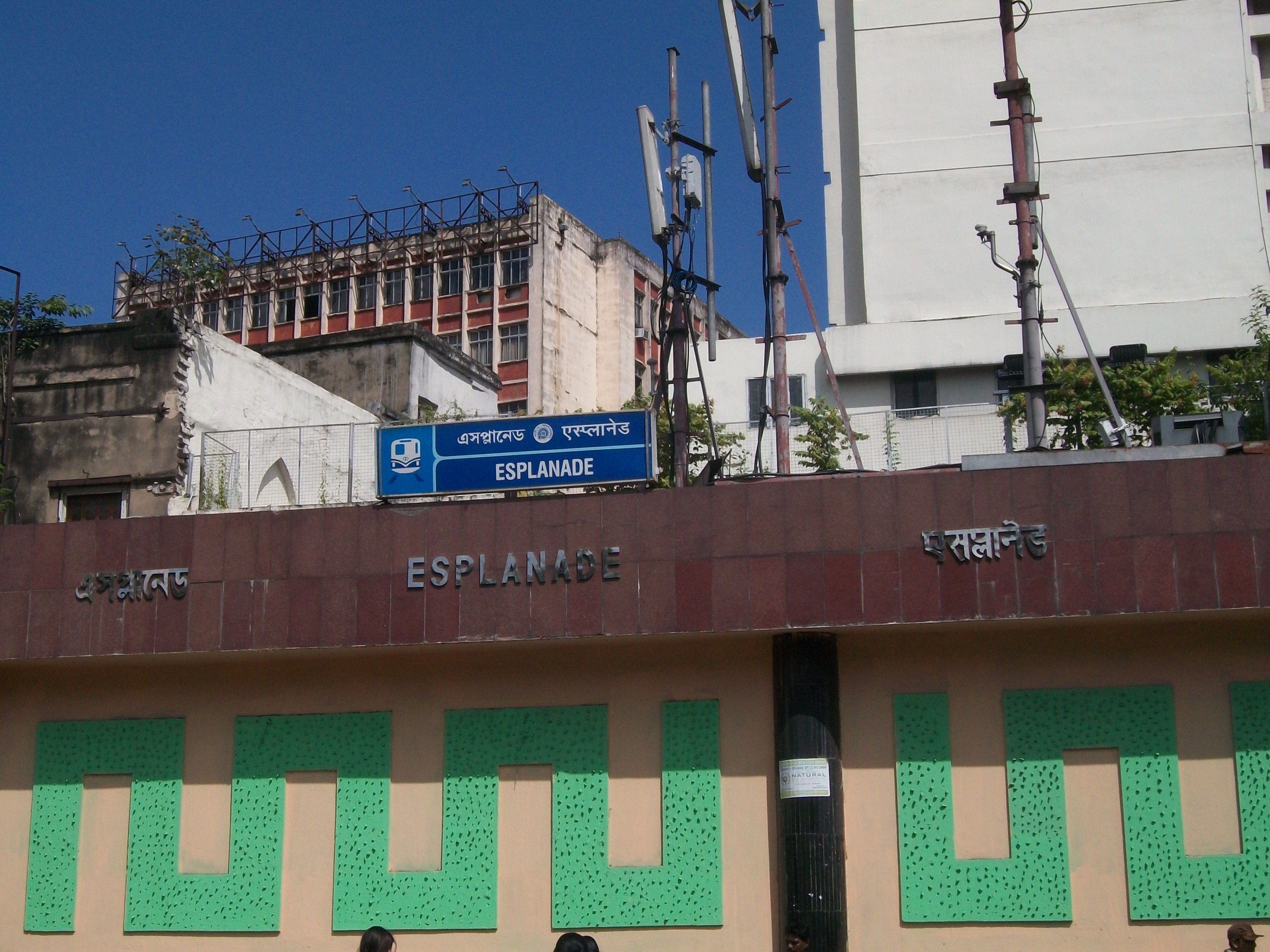 Esplanade metro station(the gate near the Grand Oberoi and S S Hogg Market)